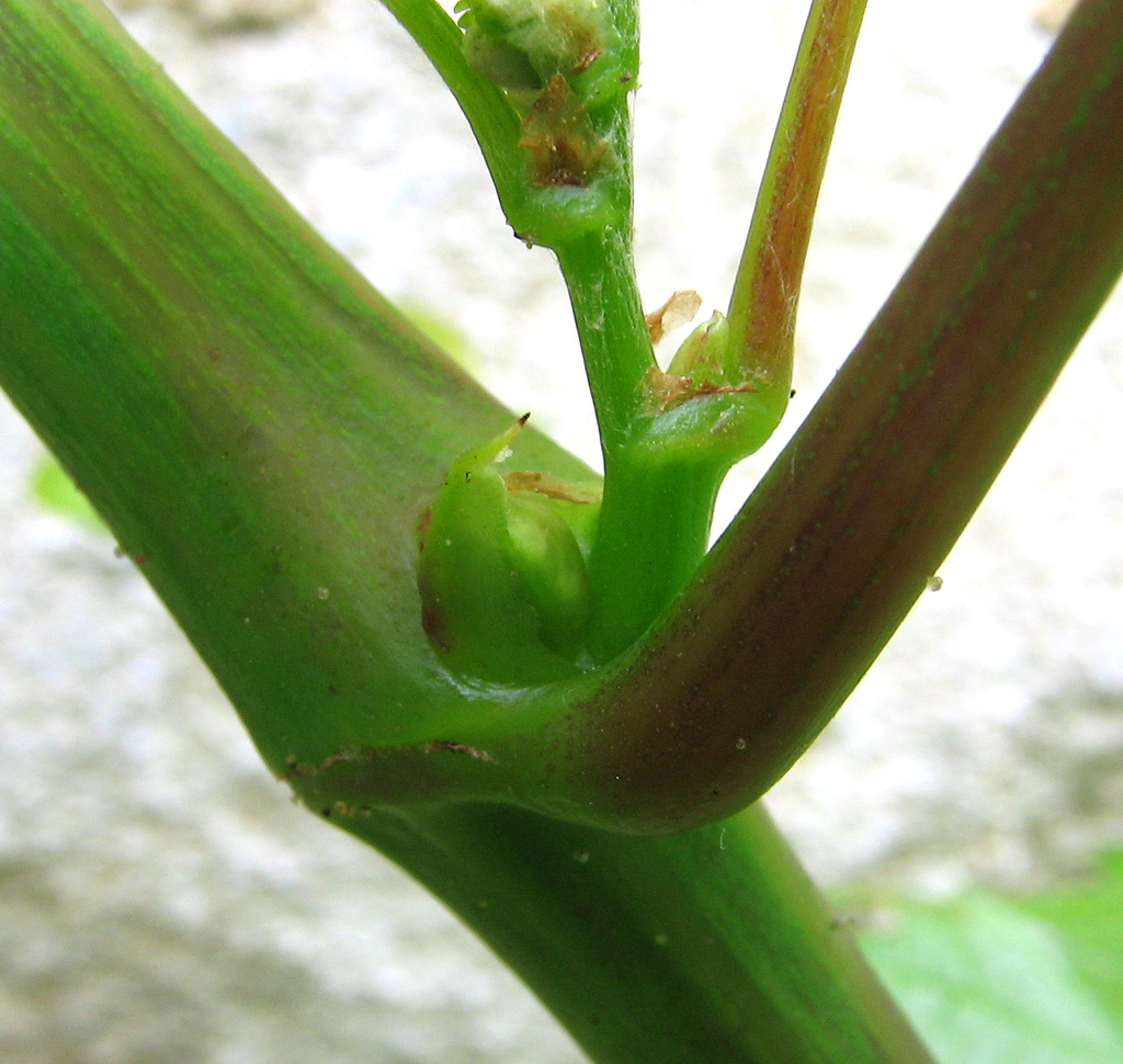 Regent Grape Vine showing leaf axil and bud, July.